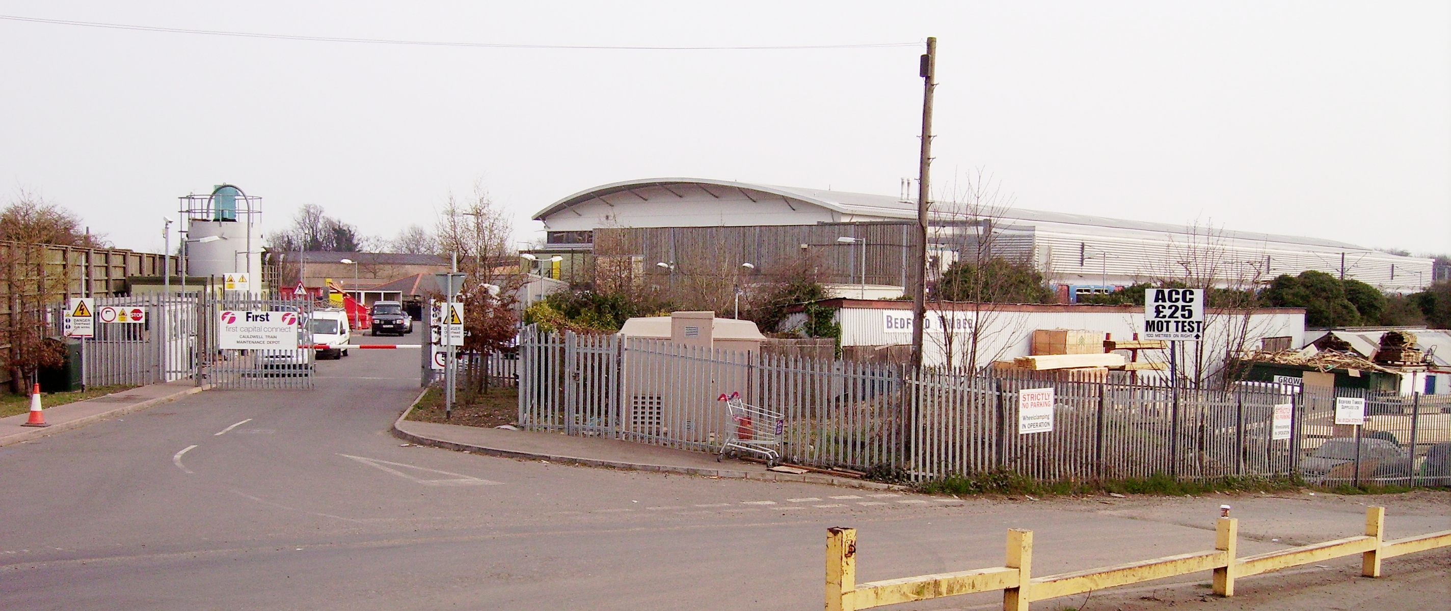 First Capital Connect Cauldwell Train Maintenance Depot at the top of Cauldwell Walk where it meets Kempston Road in Bedford. A train is parked nest to the large shed, but both are partially obscured by the timber yard.